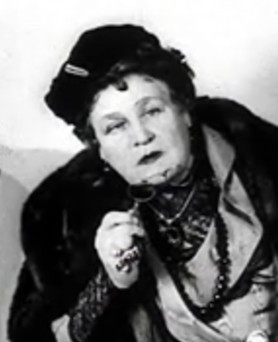 Cropped screenshot of Alison Skipworth from the trailer for the film The Casino Murder Case